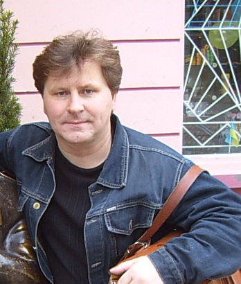 Photo of Ihor Pavlyuk